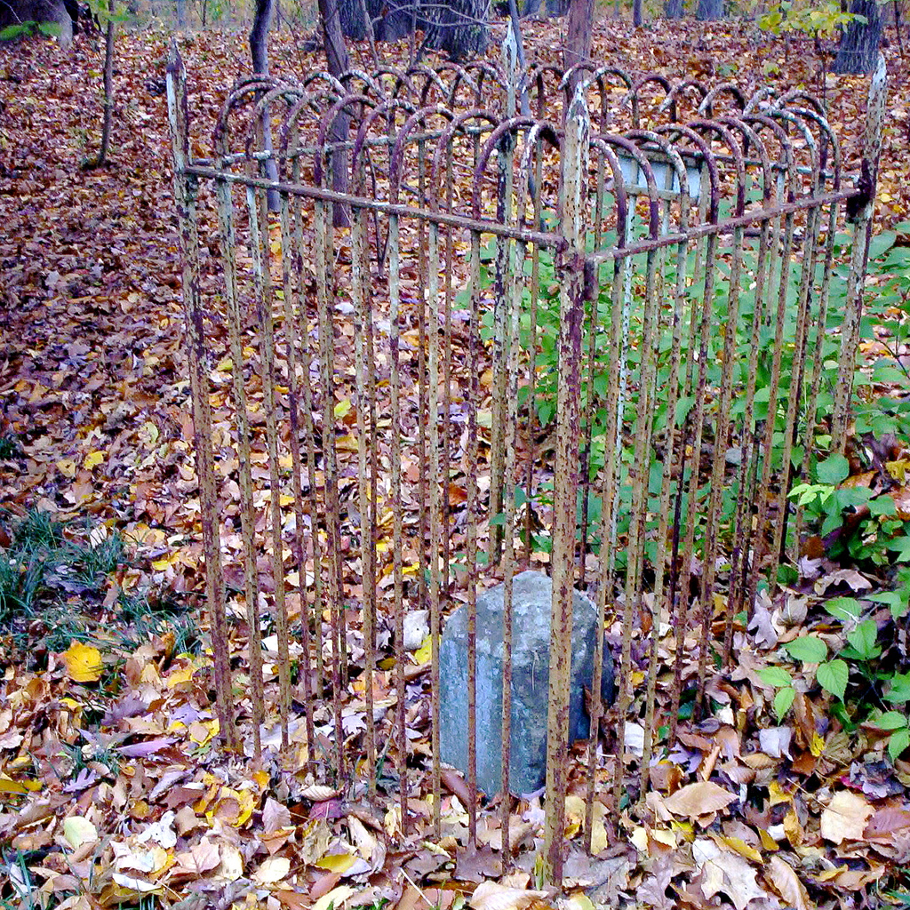 Boundary Stone number 9 on the Northwest side of the District of Columbia. Marks the border between DC and Maryland. On the NRHP. Taken by zhurnaly - not by me. Large size photo at Set of 27 (of the 40 boundary stones) all marked CC-by-2.0, all are on the NRHP. Stones were set in a 1791 survey and are called the 1st monuments of the US Federal Government.